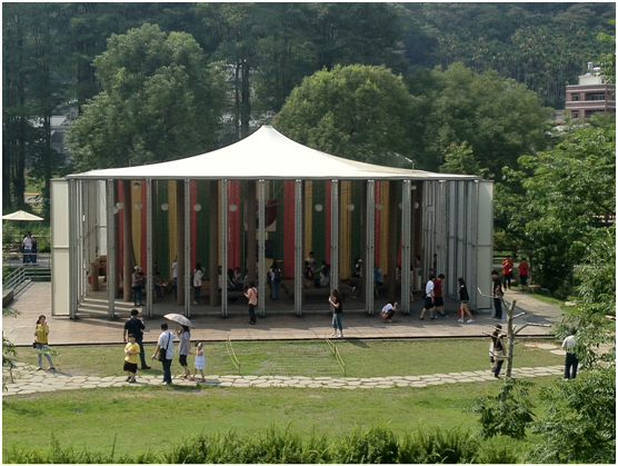 paper dome